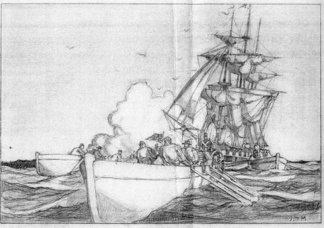 Henry Bulls Watson's Marines of the USS Portsmouth proceding ashore on July 9, 1846 to hoist the American flag at Yerba Buena, San Francisco, ink drawing by Arman Manookian, Honolulu Academy of Arts